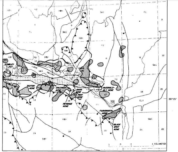 Ely Mine Locations 2